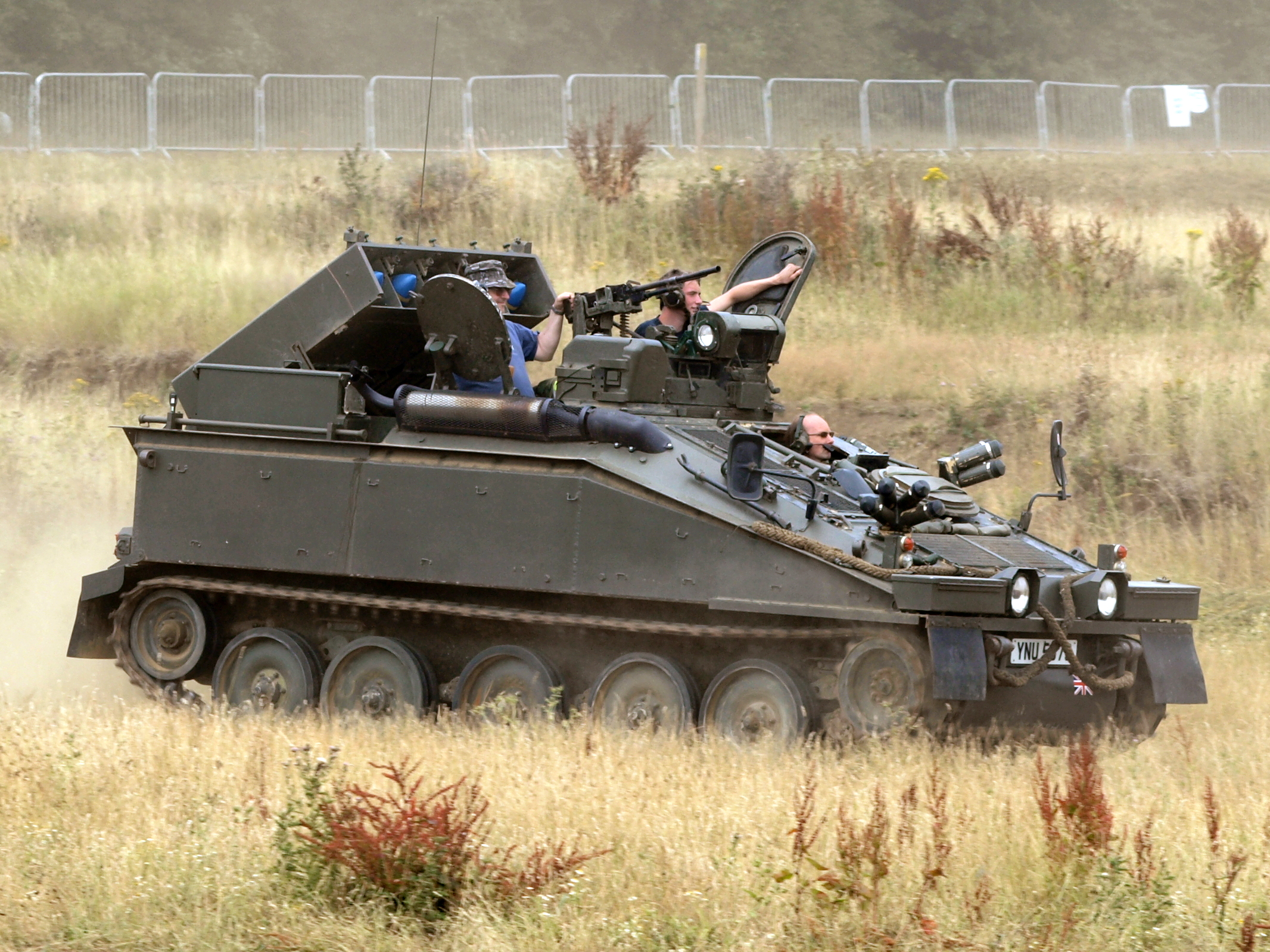 Alvis FV102 Striker owned by Malcolm McMillan